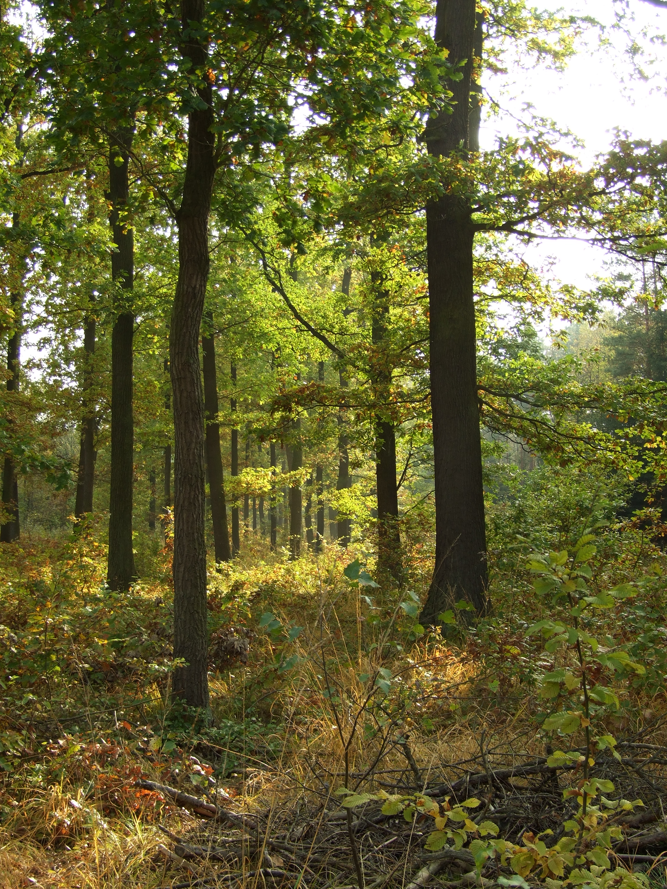 Klánovice Forest-eastern part, Prague, CZhelp